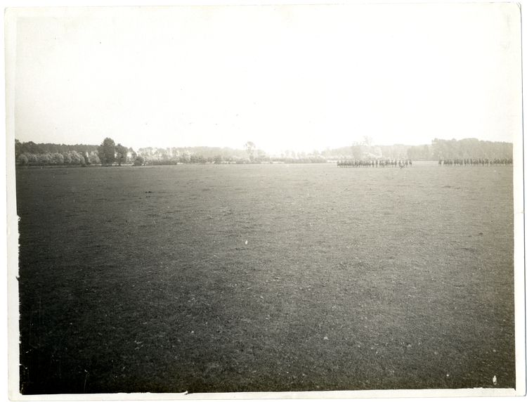 Cavalry squadron charging [?St Floris, France].